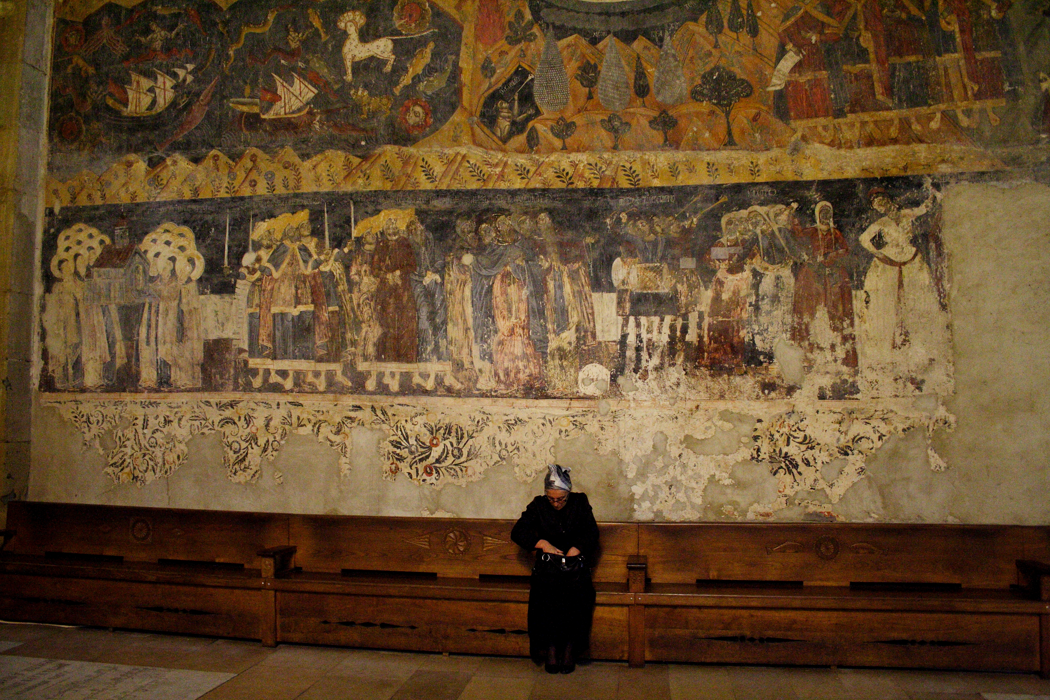 One of the frescoes of the Svetitskhoveli Cathedral